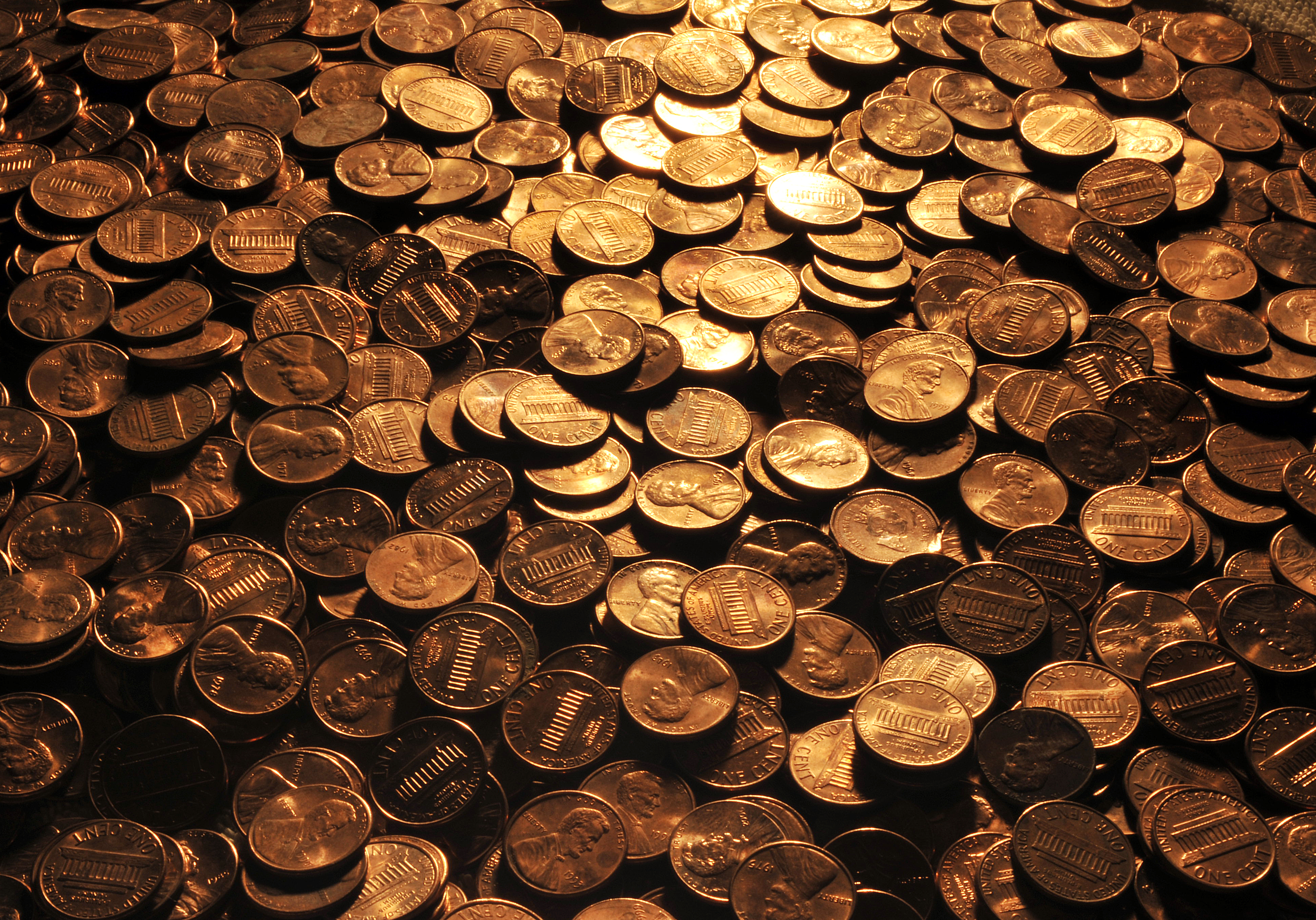 Large amount of pennies